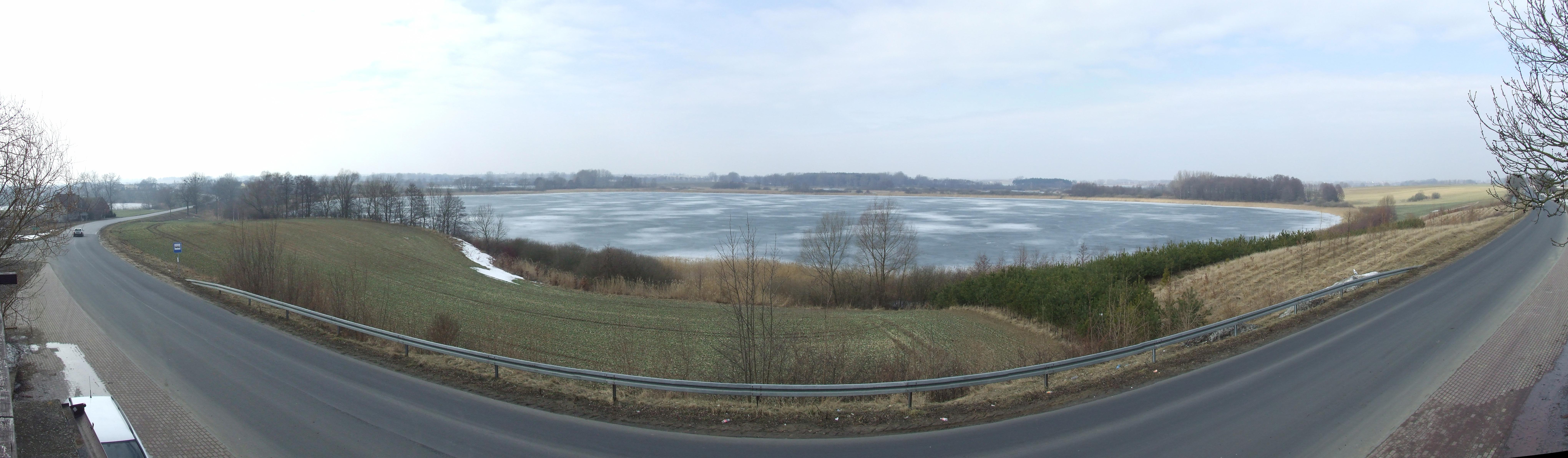 Godawskie Lake